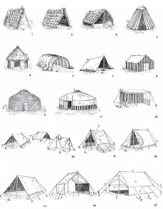 ಗುಡಾರದ ವಿವಿಧ ಬಗೆಗಳು